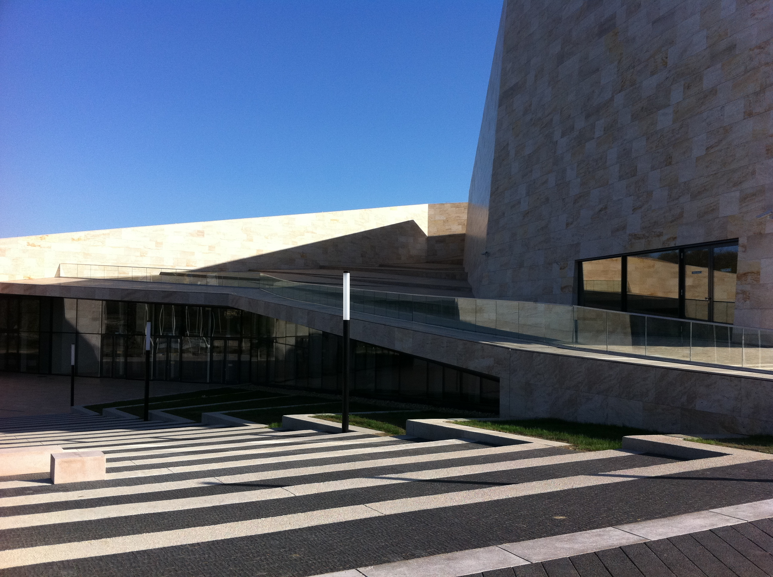 Kodaly Center in Pécs, Hungary. It was built in 2010.